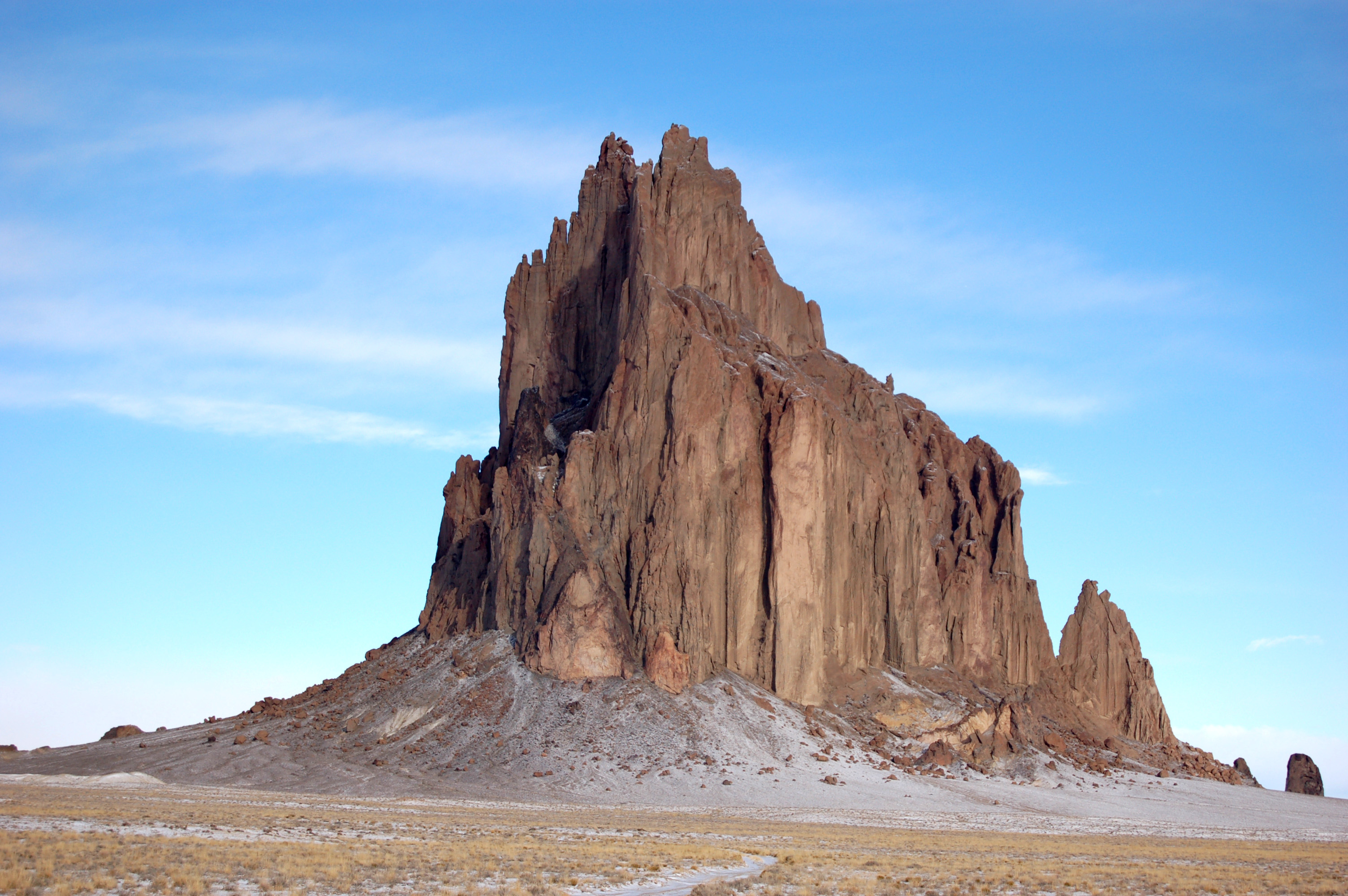 A photograph of Shiprock, Navajo Nation, New Mexico, USA.